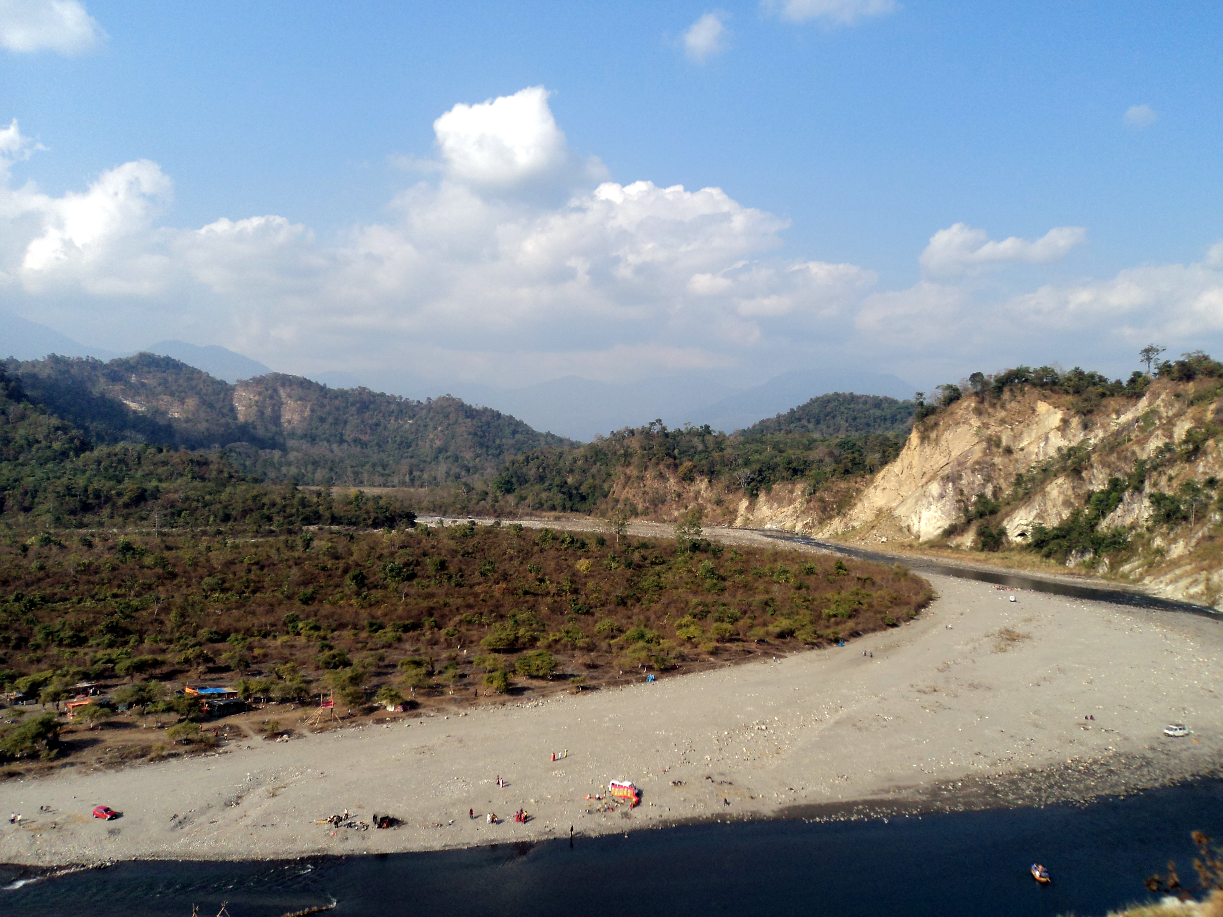 A popular picnic spot Bagamati situated in Baksa district of Assam, India